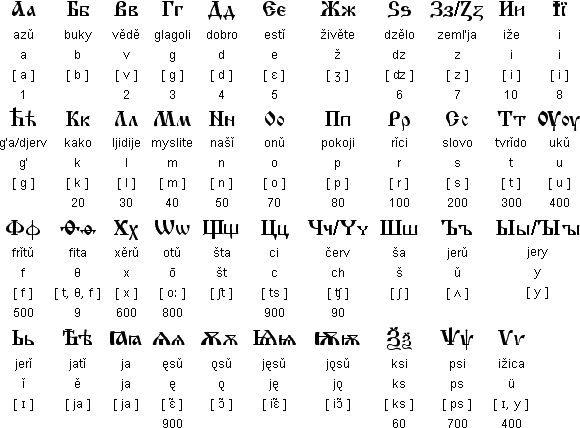 The old version of the Cyrillic alphabet.